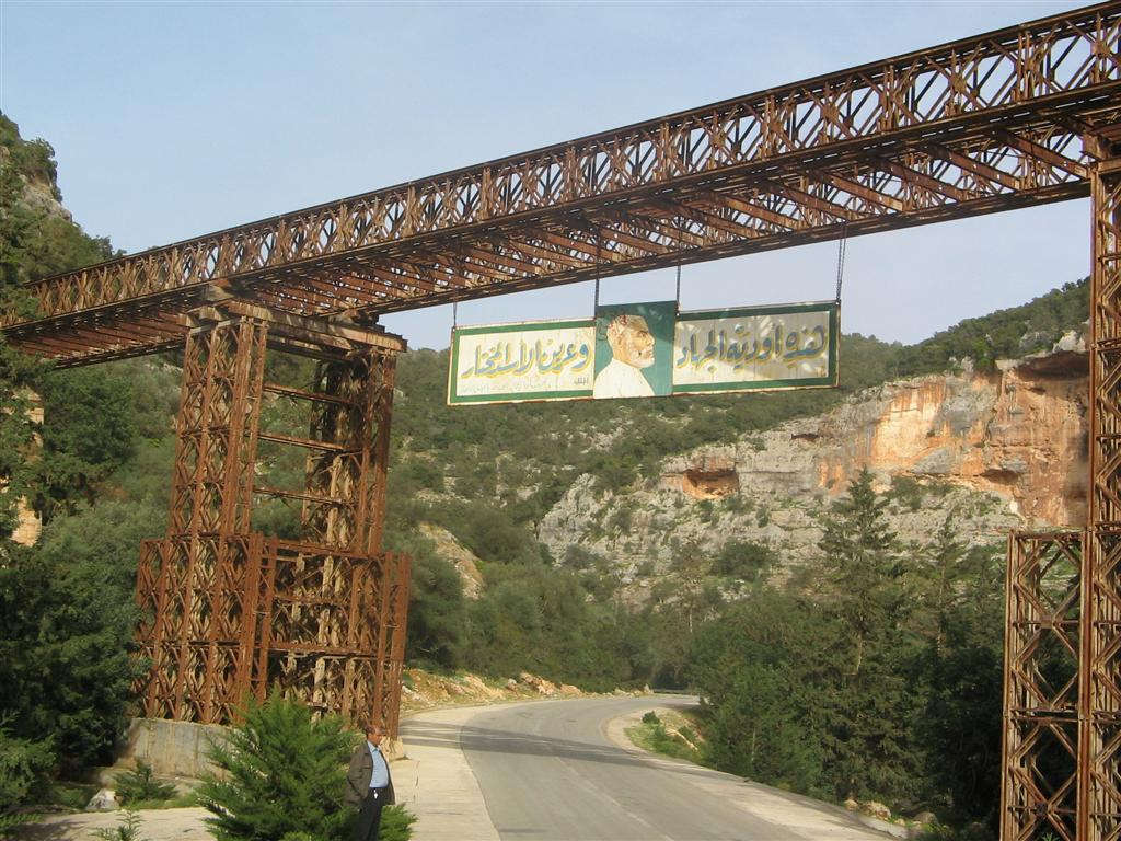 Bailey bridge, Wadi el Kuf, Libya. Constructed by the British Army, shortly after World War II. The sign below the bridge reads: هذه أودية الجهاد وعرين الأسد المختار (="These are the wadis of jihad and the chosen lion den")